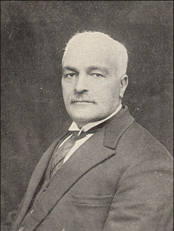 A low resolution photo of arbab khaykhosro shahrokh for using on his article